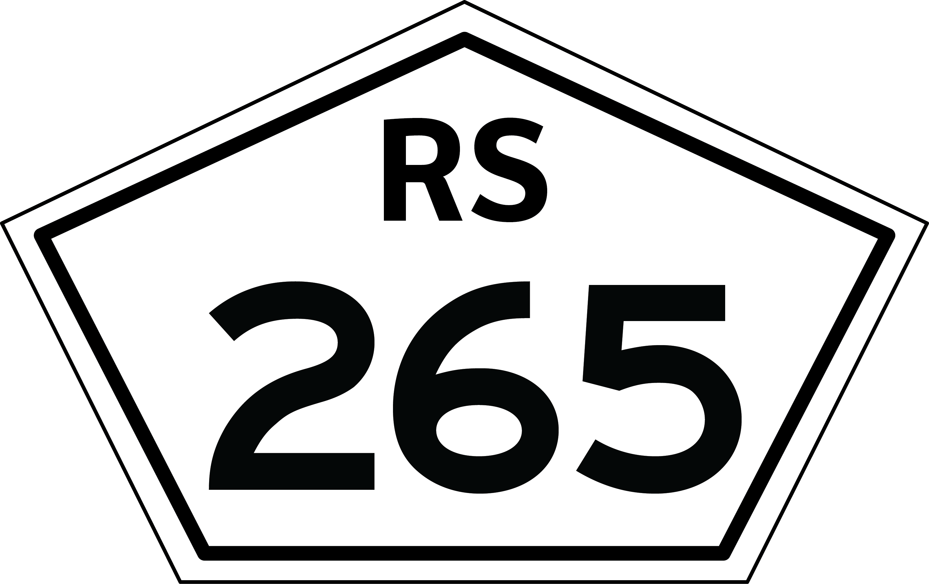 RS-265. State road in Rio Grande do Sul, Brazil. Rodovia estadual no Rio Grande do Sul, Brasil.